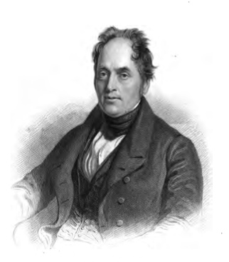 Etching of Samuel Clegg, early gas engineer and inventor